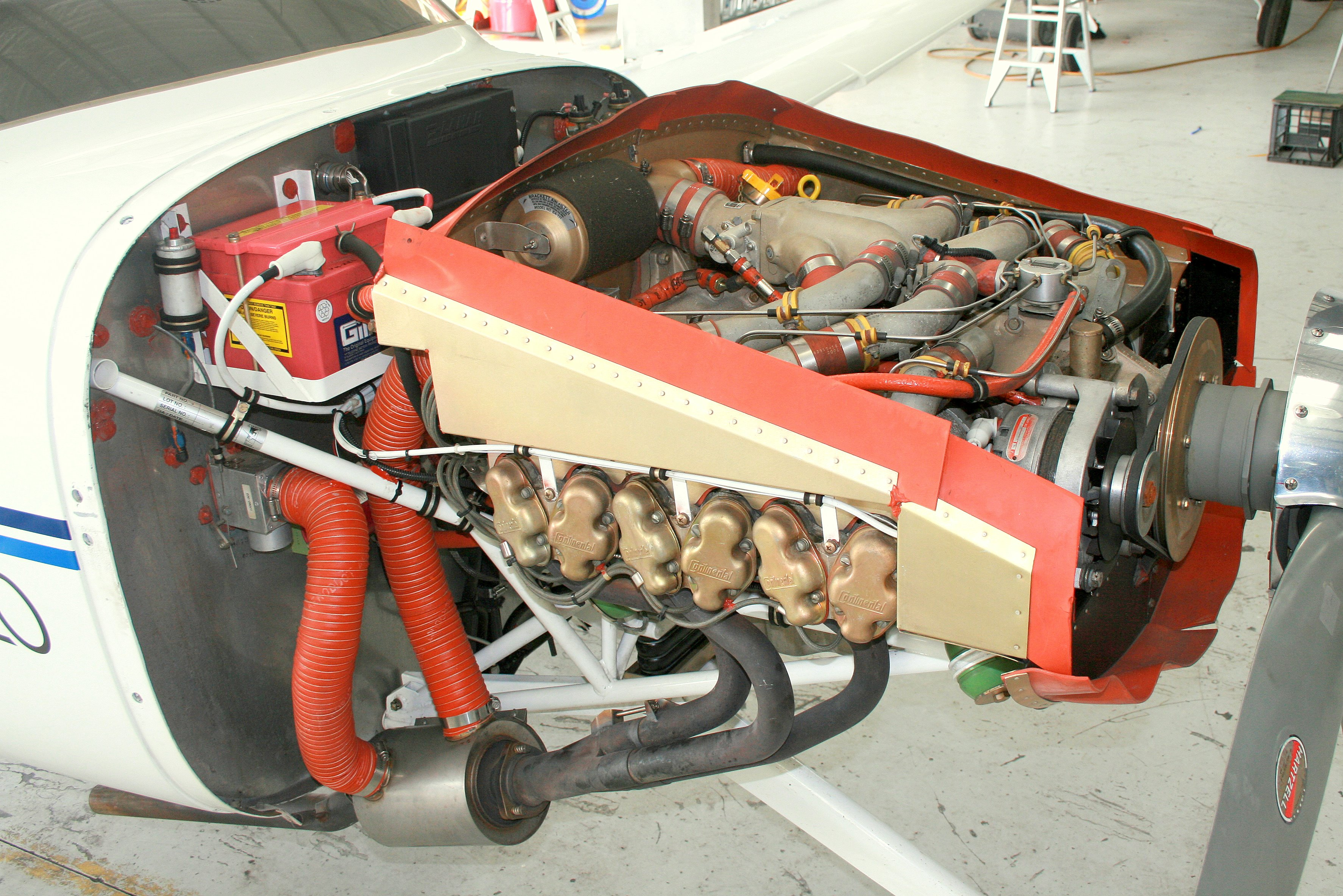 A Continental IO-360 engine mounted on a Cirrus SR20 single-engine aircraft.